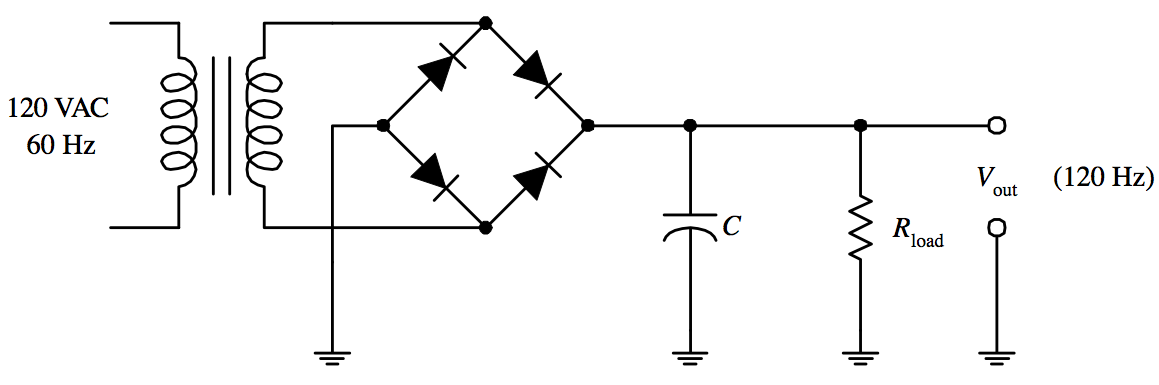 Schematic of basic AC-to-DC power supply, showing (from L-R) transformer, full-wave bridge rectifier, filter capacitor and resistor load. This circuit image could be recreated using vector graphics as an SVG file. This has several advantages; see Commons:Media for cleanup for more information. If an SVG form of this image is available, please upload it and afterwards replace this template with vector version available|new image name .